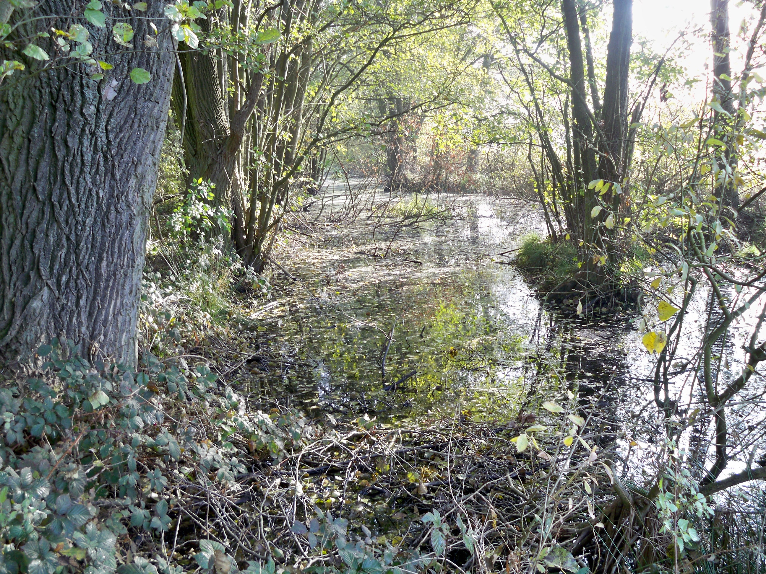 "Jeggauer Moor" (part of "Ohre-Drömling" nature reserve) near Trippigleben, Klötze, Saxony-Anhalt